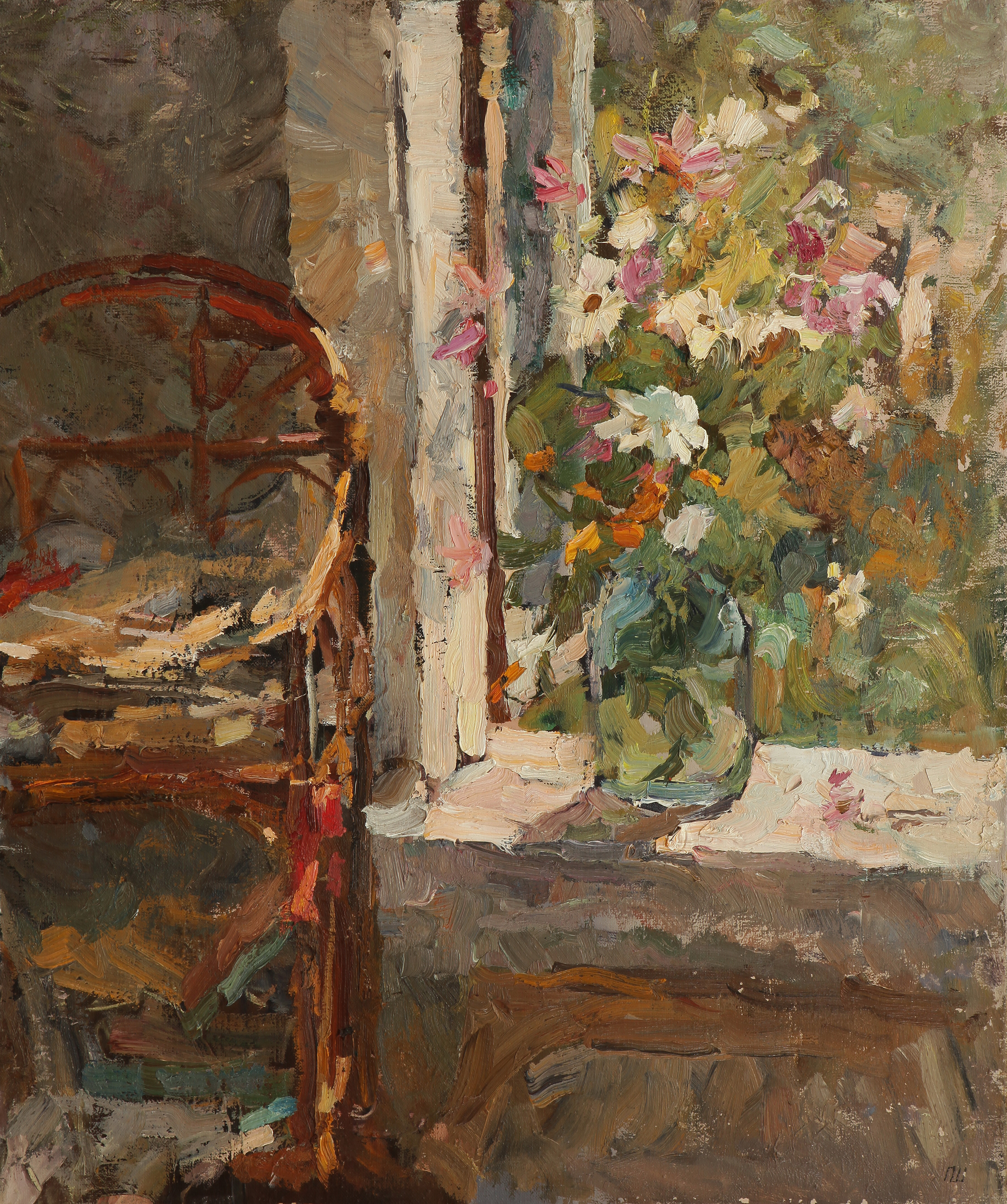 Sharipa Piotr Piatrovich (1942-2013), Belarussian painter. "Summer window". Oil on canvas, 74 x 63 cm.